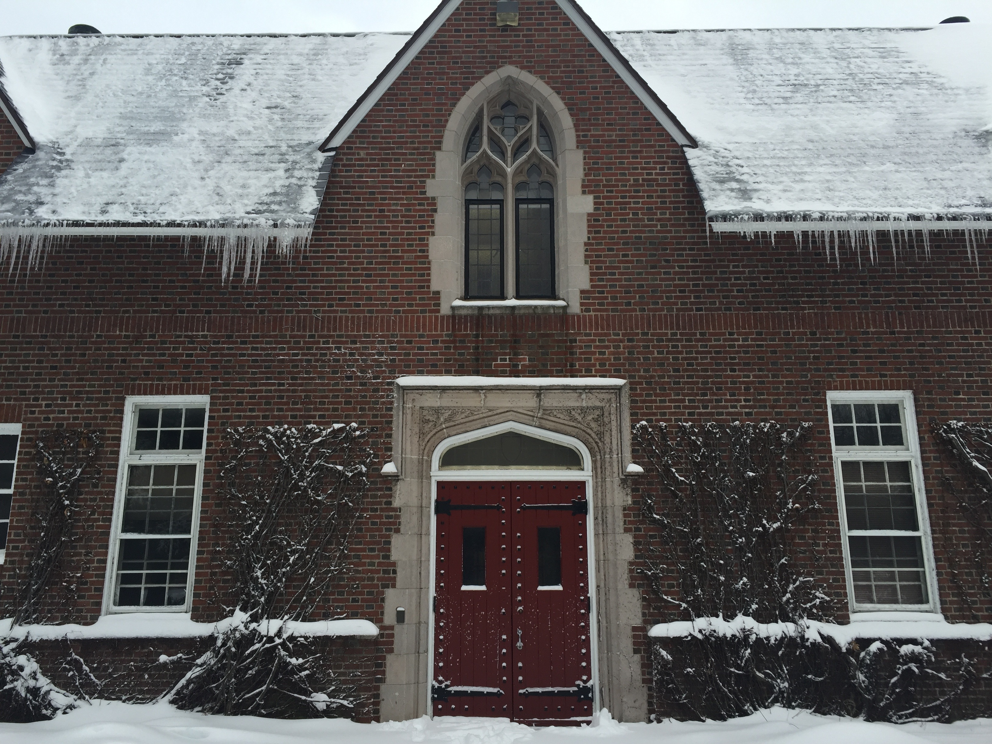 Alumni Gym Doors (Red)